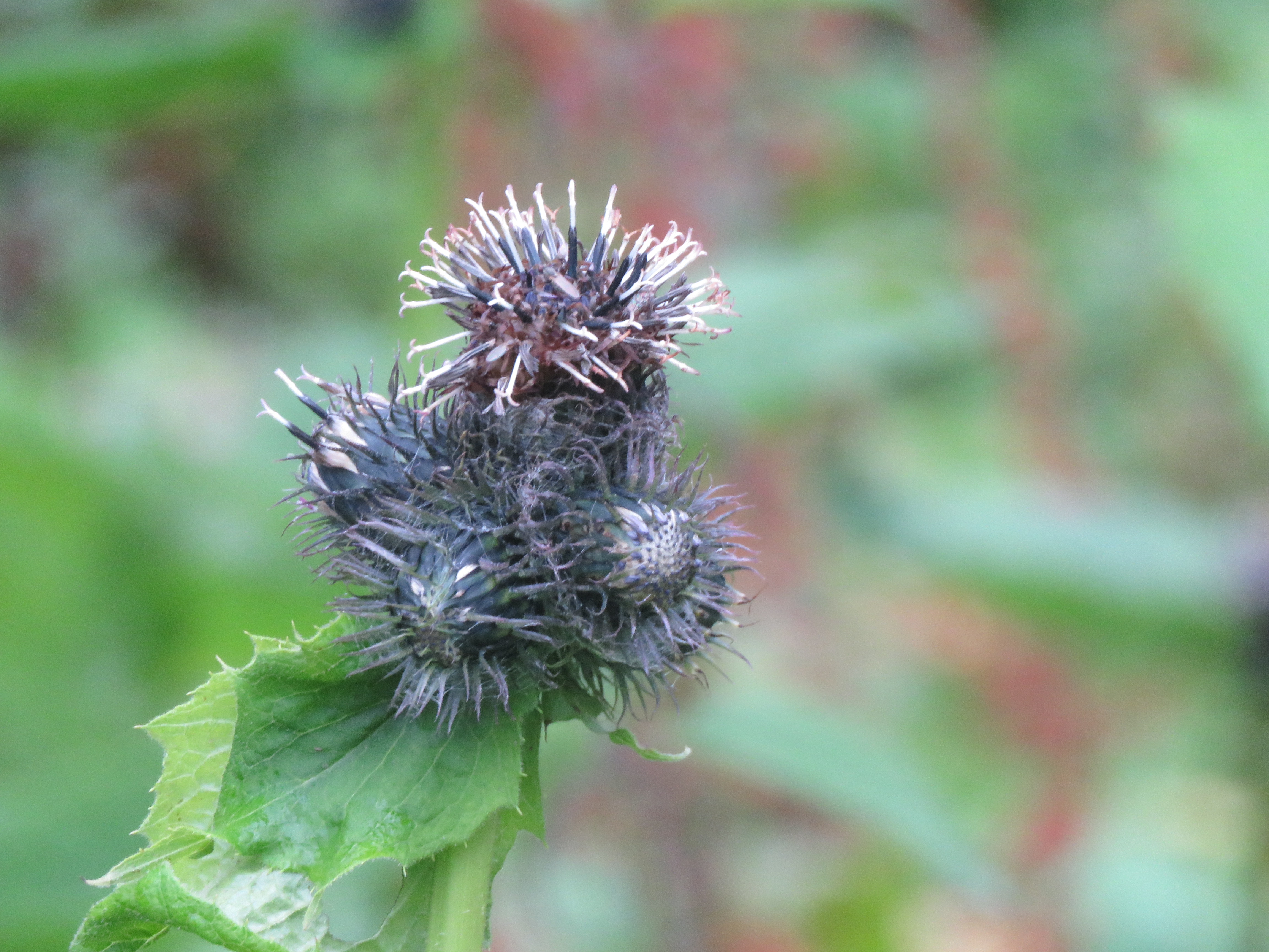 Photos from Valley of Flowers trip during LGFC - VOF 2019